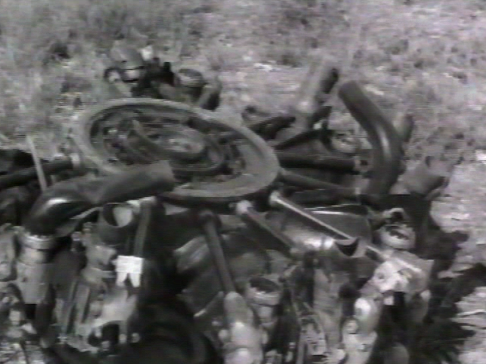 Screenshot of newsreel footage of Skymaster air crash near Perth, Western australia on 26 June 1950